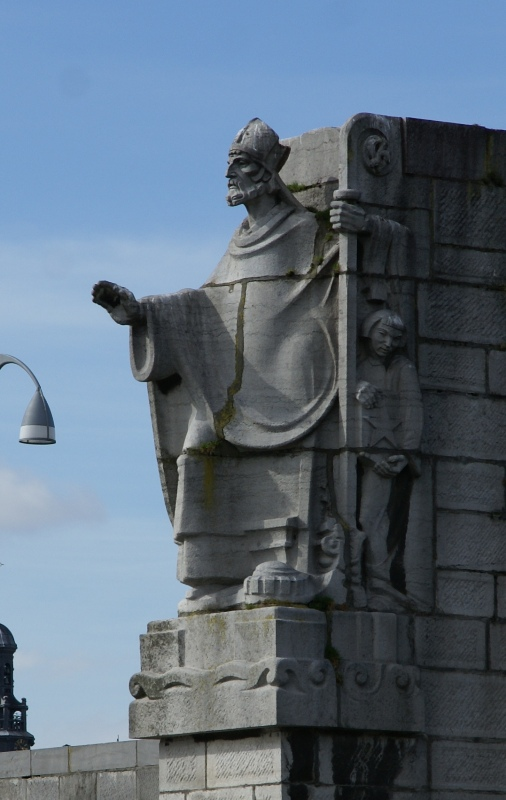 Saint Servatius on Servatius Bridge in Maastricht, by Charles Vos, 1934